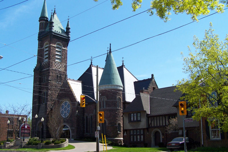 Taken by User:Trappy, April 2006. This is a photograph of St. Thomas Anglican Church on Ontario St. in St. Catharines, Ontario. I personally took this photo and release it to the public domain. Remove from en